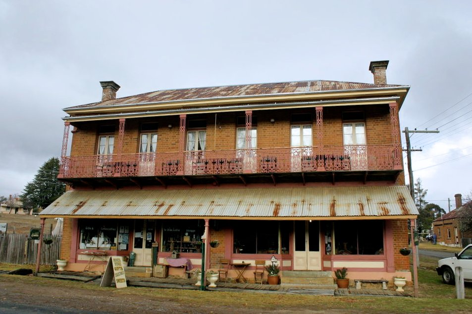 Another of the original buildings still standing and operating as it did decades ago. This is the Hill End B&B (Hosies) Gifts Crafts & Collectables.